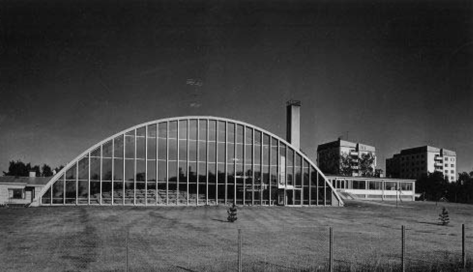 Architects Olli Saijonmaa & Eija Saijonmaa, completed 1962. Pictured here soon after completion.